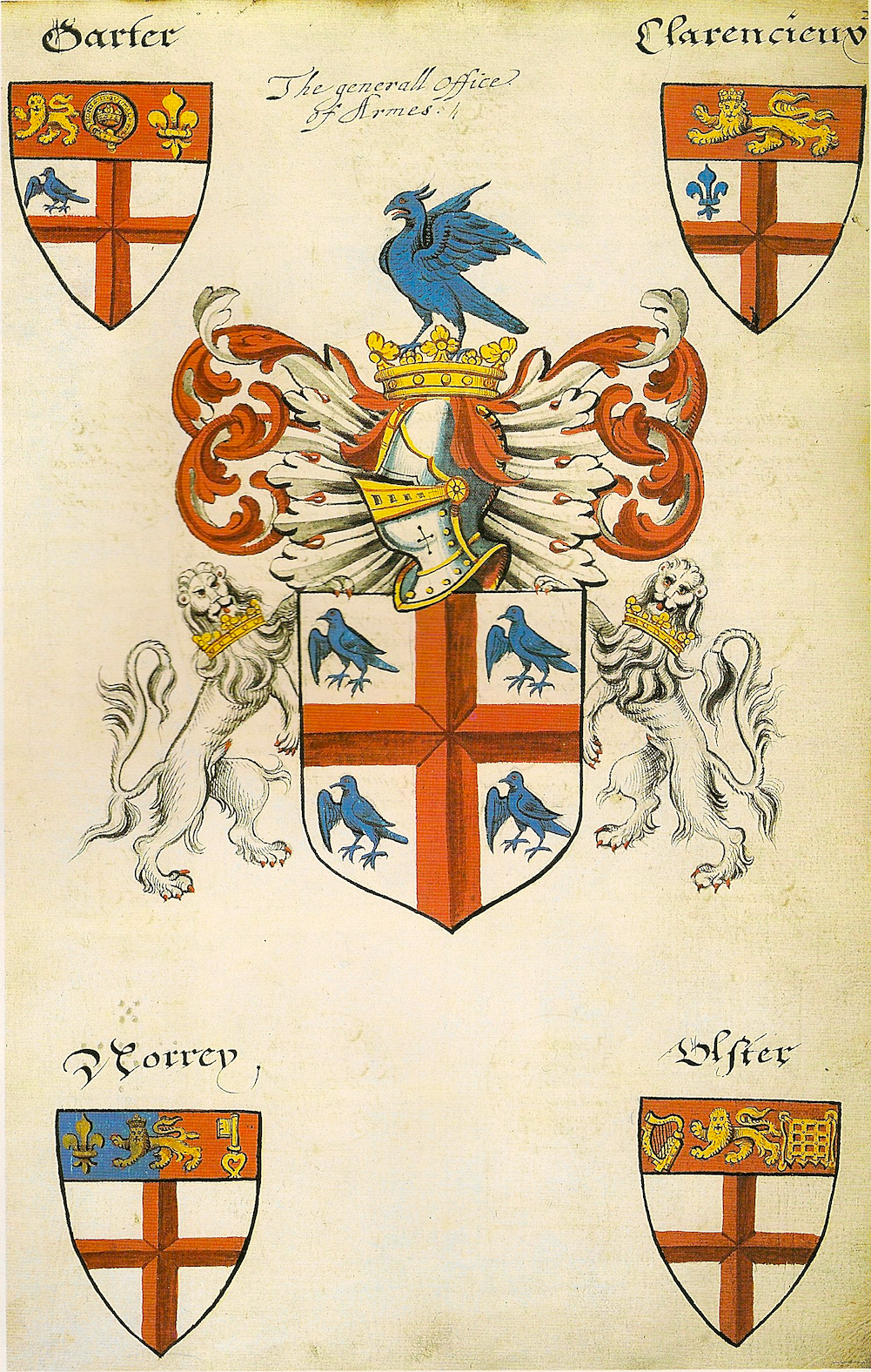 'Lant's Roll' of c.1595, prepared by Thomas Lant (c.1556-1601), Windsor Herald: a catalogue recording Officers of Arms from the time of Henry V illustrating the arms of the College of Arms, and the arms of Office of Garter, Clarenceux, Norroy and Ulster Kings of Arms. In the case of Garter and Clarenceux there is an additional charge in the first quarter which does not appear subsequently.